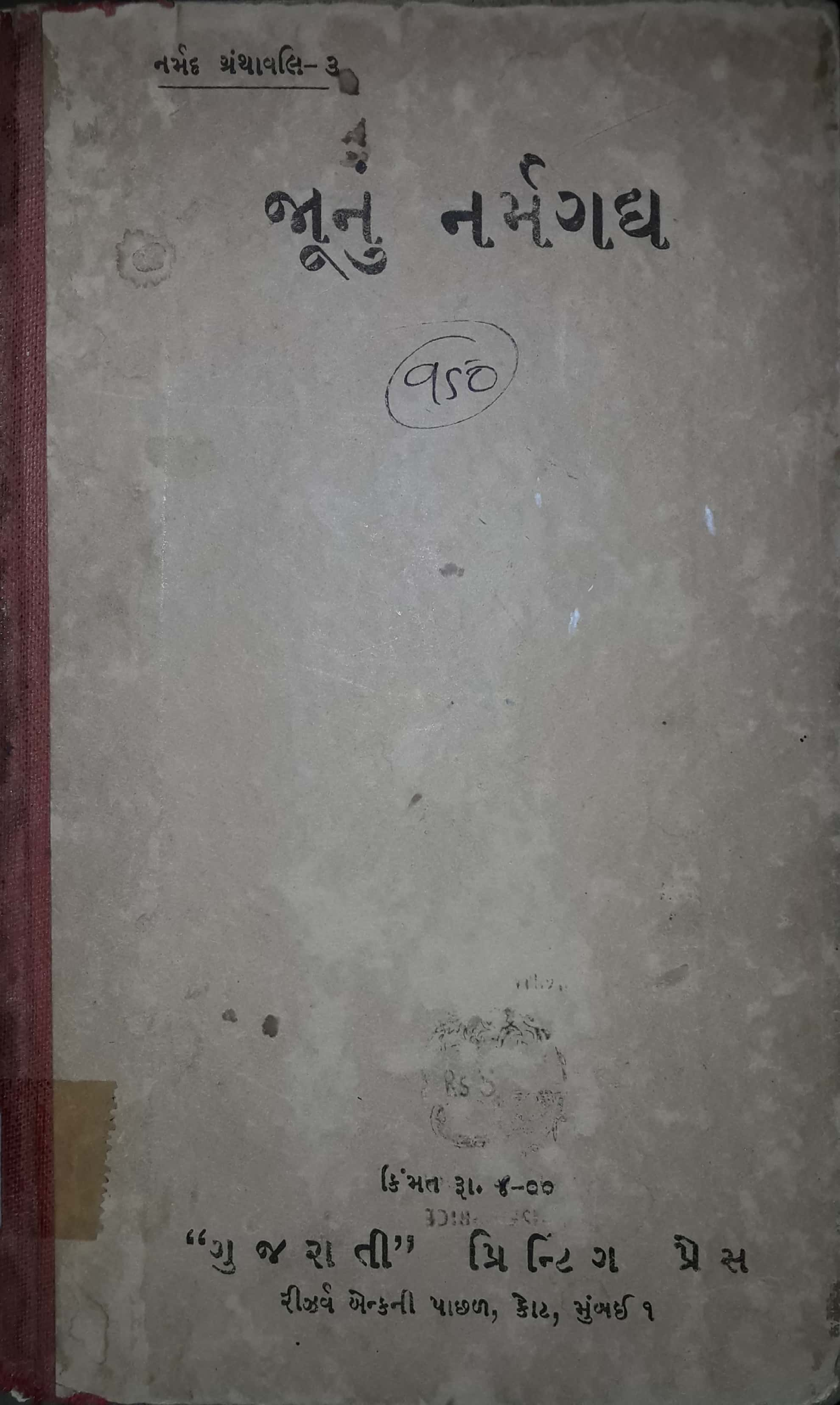 Cover page of 'Junu Narmagadya' by Narmadashankar Dave 'Narmad; Gujarati Printing Press